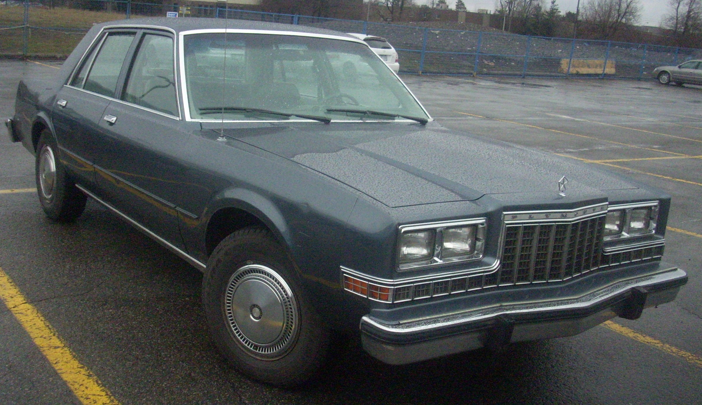 1986 Plymouth Caravelle Salon photographed in Pointe Claire, Quebec, Canada.